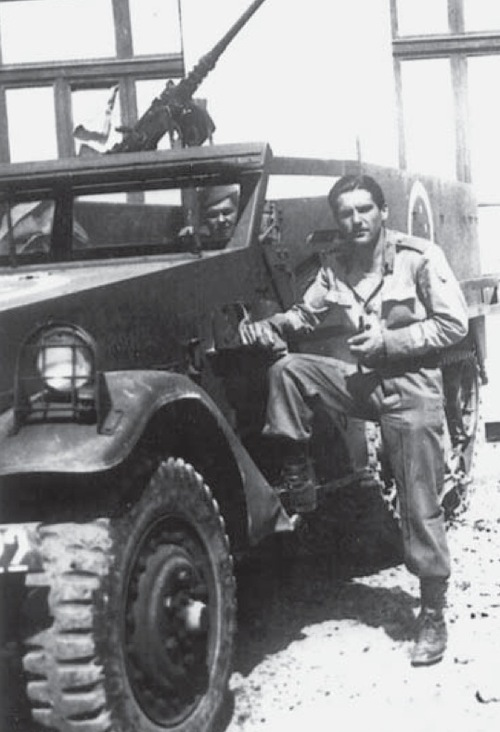 A Brazilian Recon Team poses in front of their M3 halftrack